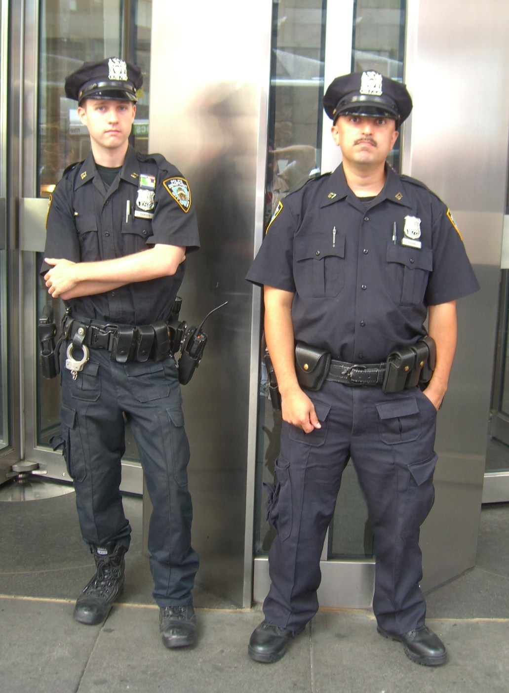 New York City Police officers in Times Square, May 29, 2010. This photo was created by Luigi Novi. It is not in the public domain, and use of this file outside of the licensing terms is a copyright violation.